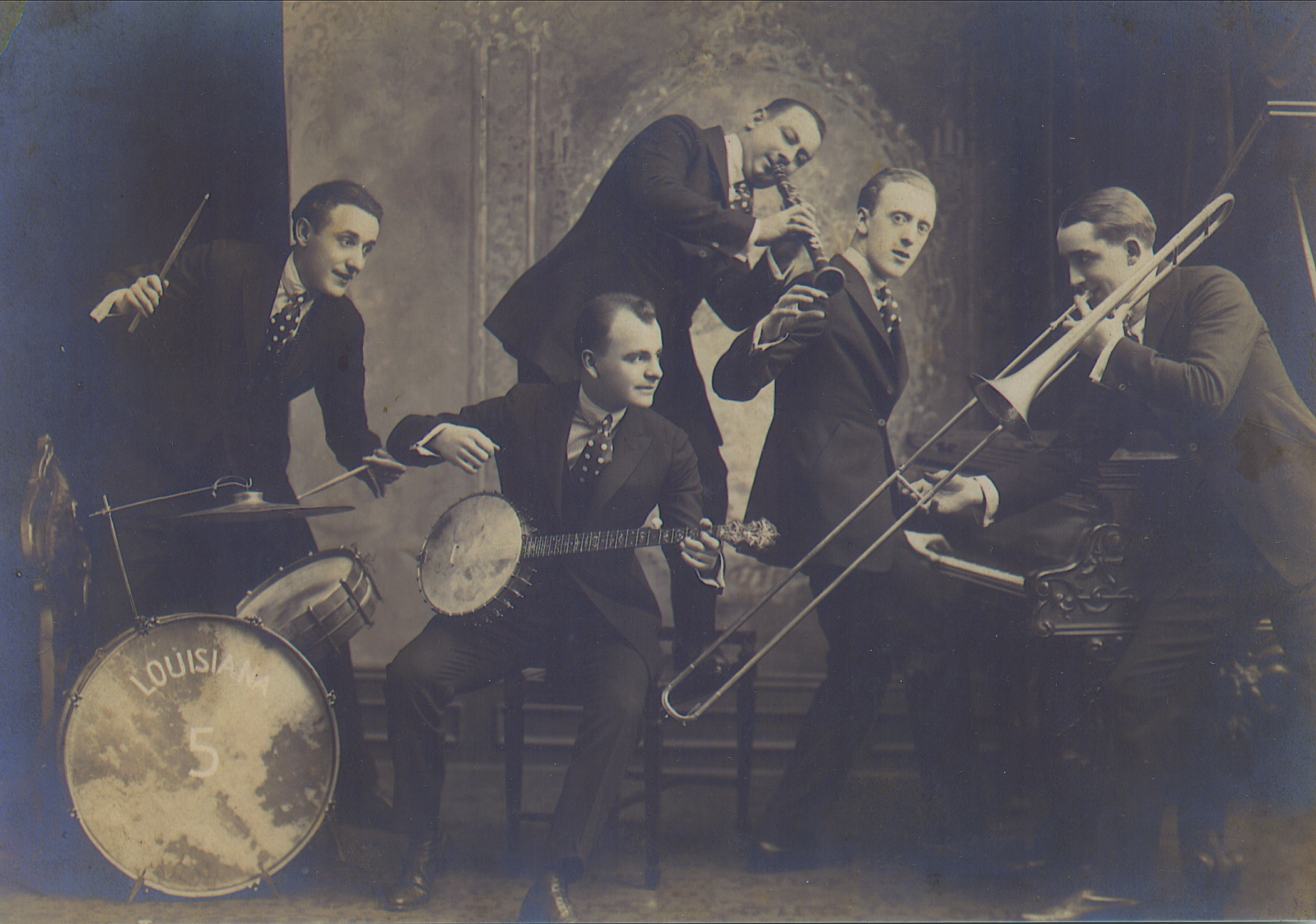 Louisiana Five jazz band, 1919. This was the most widely reproduced of the band's publicity photographs at the time. Left to right: Anton Lada, drums; Karl Berger, banjo; Alcide "Yellow" Nunez, clarinet; Joe Cawley, piano, and Charlie Panely (as he spelled it; often rendered Panelli), trombone.